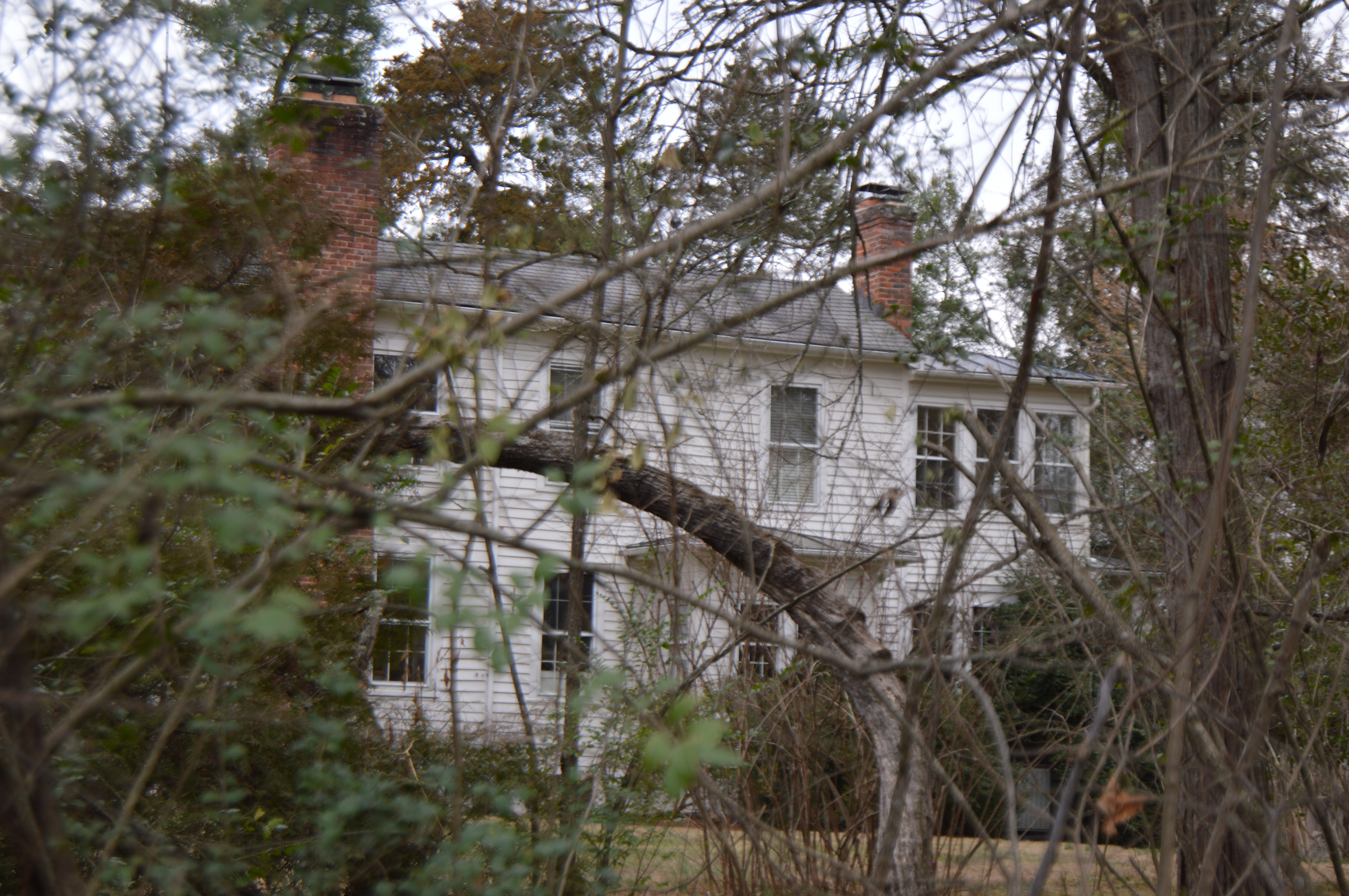 Through-the-trees view of The Rectory, located at the intersection of Glendower and Coles Rolling Roads southeast of Keene in Albemarle County, Virginia, United States. Built in 1848, it is listed on the National Register of Historic Places.